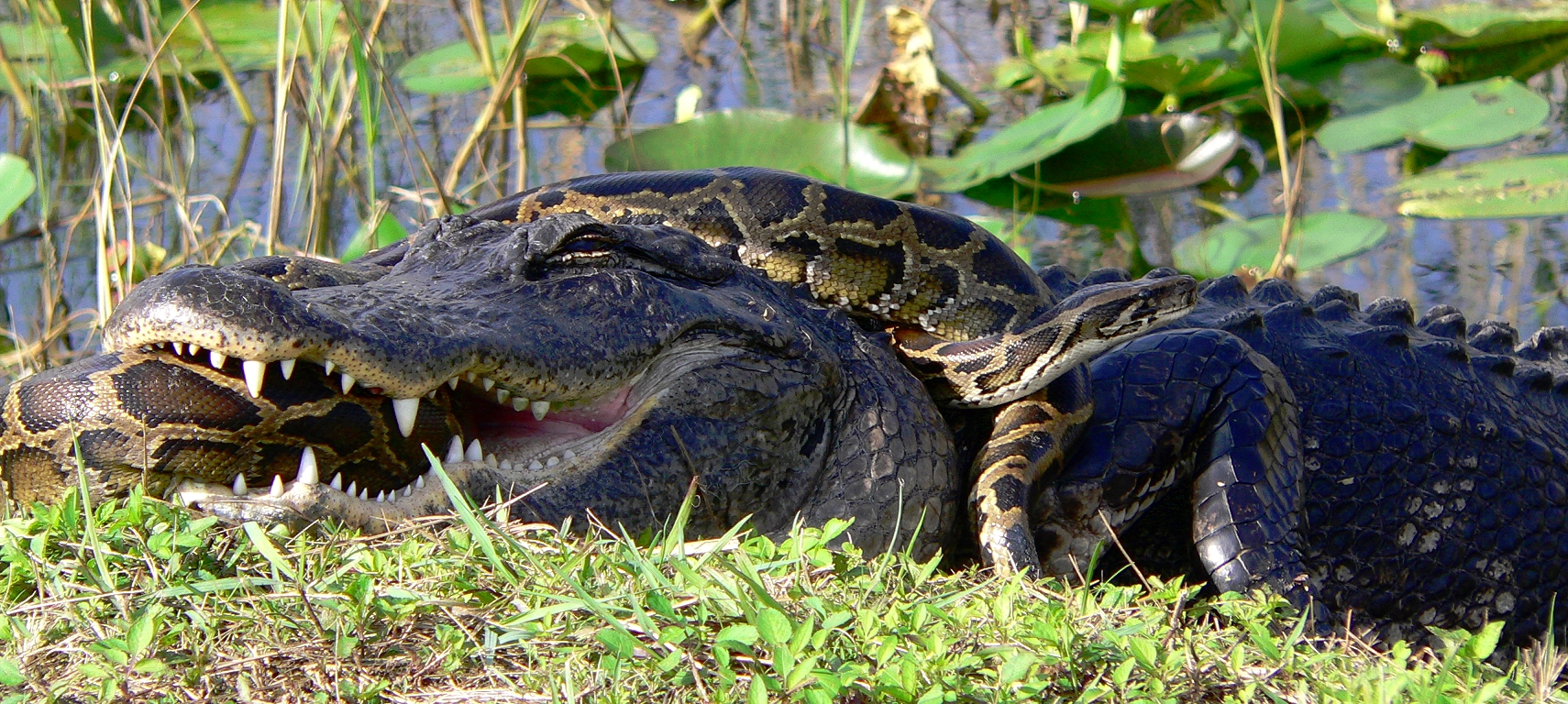 An American alligator and a Burmese python locked in a struggle to prevail in Everglades National Park.